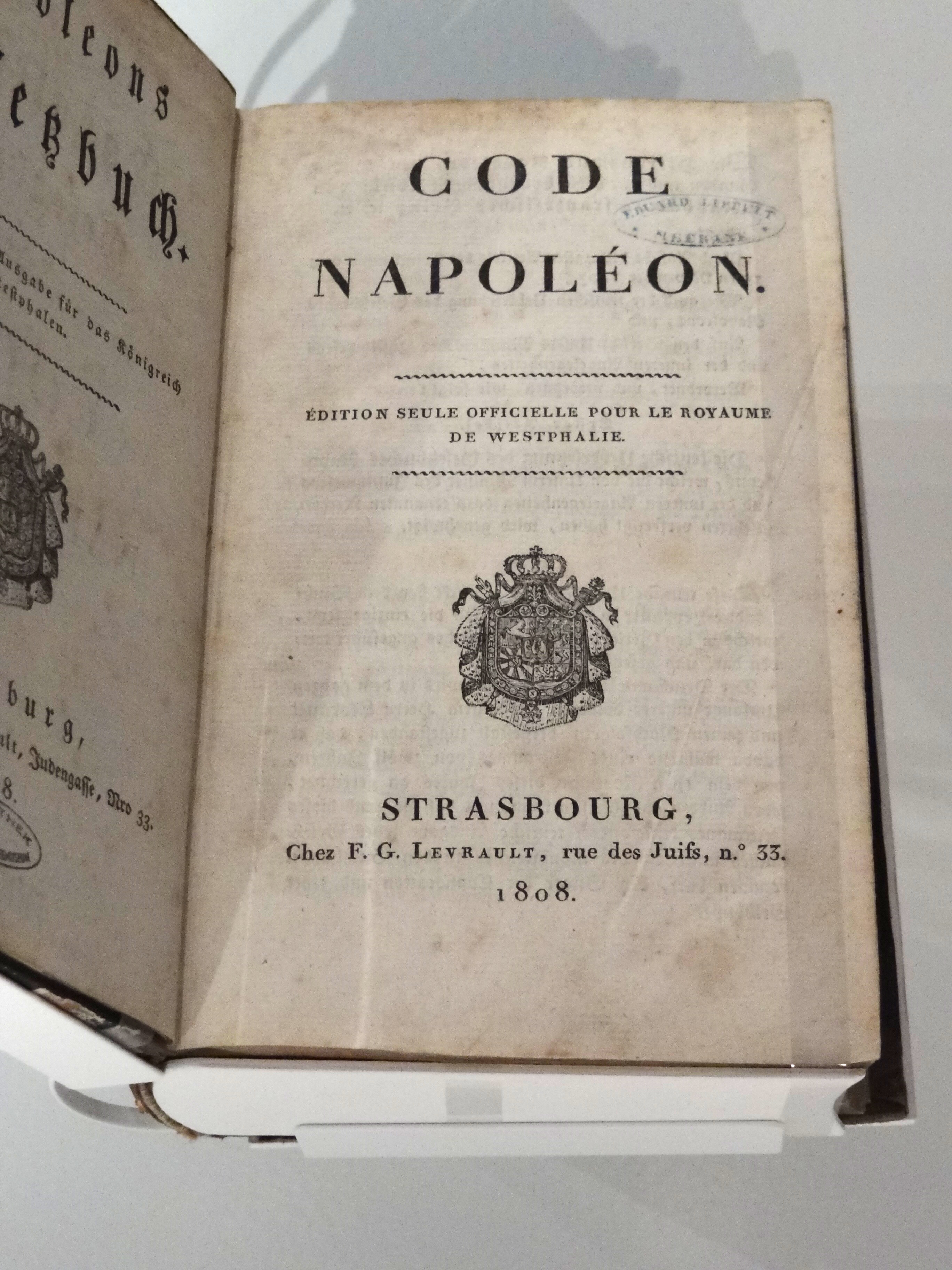 Code Napoleon - Copy in Military Museum - Dresden - Germany